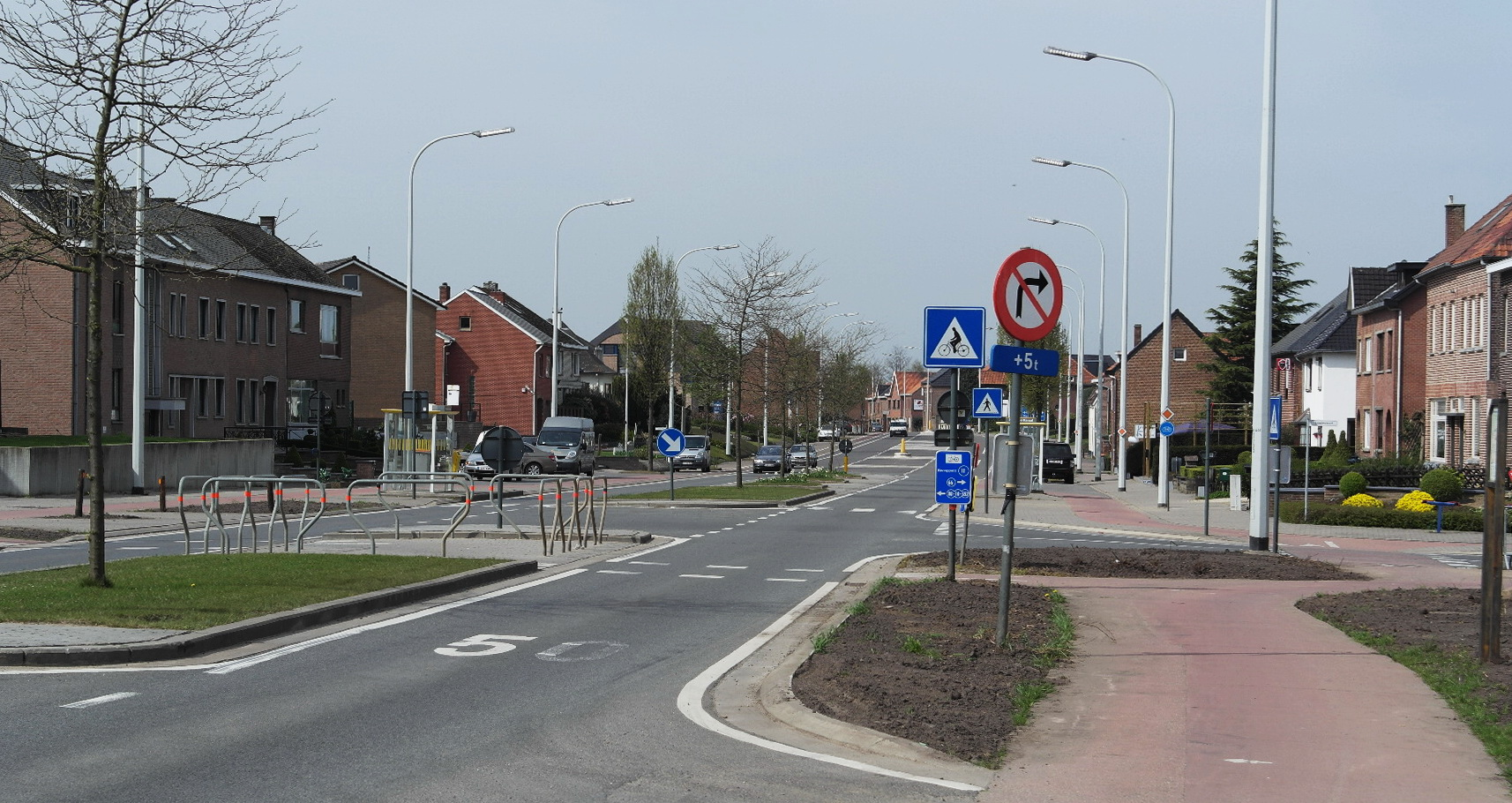 Veldwezelt, Limburg, Belgium. View of the main road from Maastricht to Lanaken.